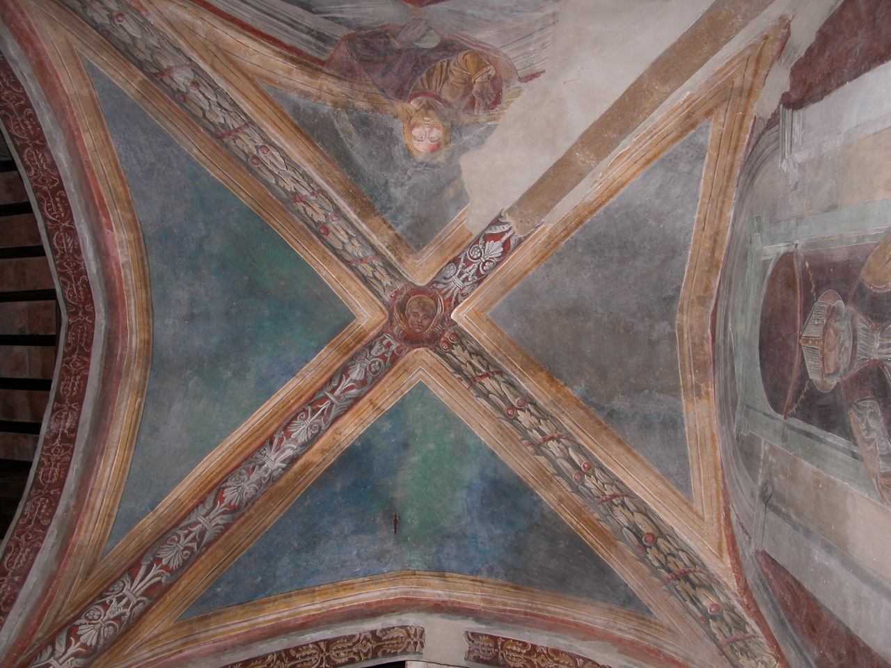 The vault of the chapel dedicated to the saint in the church of San Biagio in Nepi Unknown